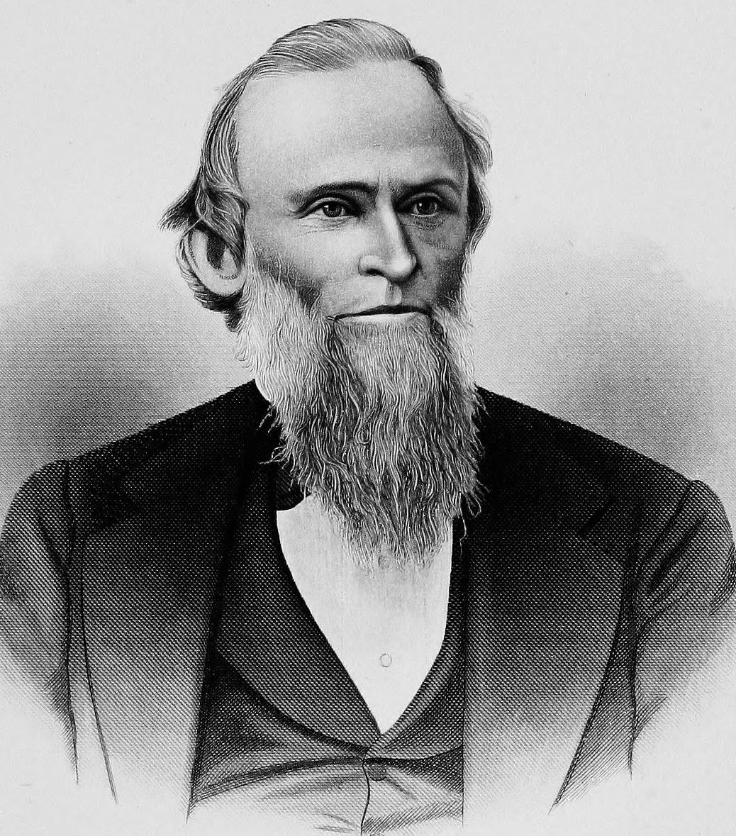 Wilder D. Foster (Michigan Congressman)